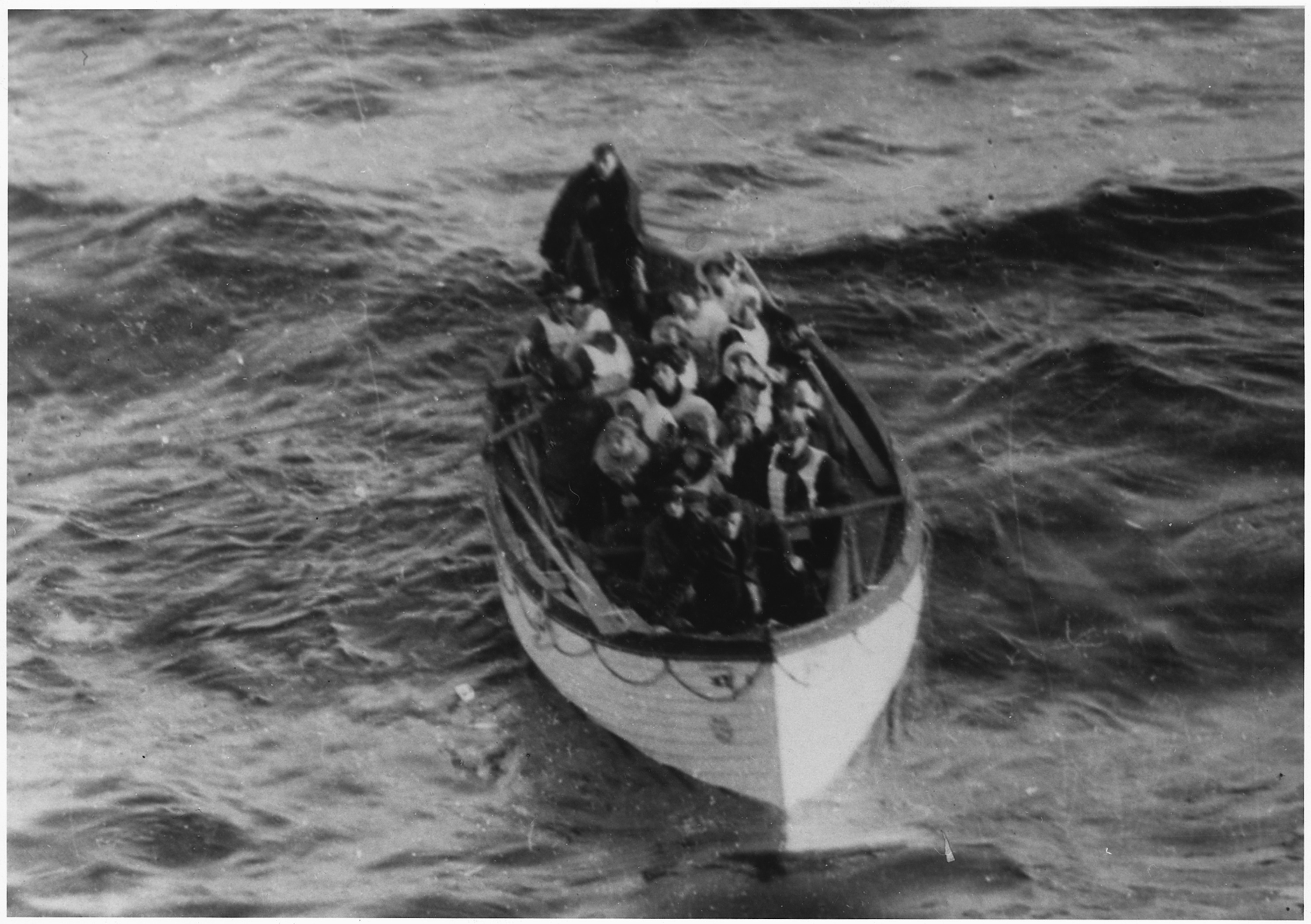 Scope and content: This is a photograph of a lifeboat carrying Titanic shipwreck survivors. Original caption: "Boat No 6, 16, 11 women, 6 men, Miss Bowerman, Mrs. J. J. Brown, Mrs. Candee, Mrs. Cavendish, Mrs. Cavendish (Maid), Mrs. Meyer, Miss Norton, Mrs. Rothchild, Mrs. L. P. Smith, Mrs. Stine & Maid, Hitching Q. M."